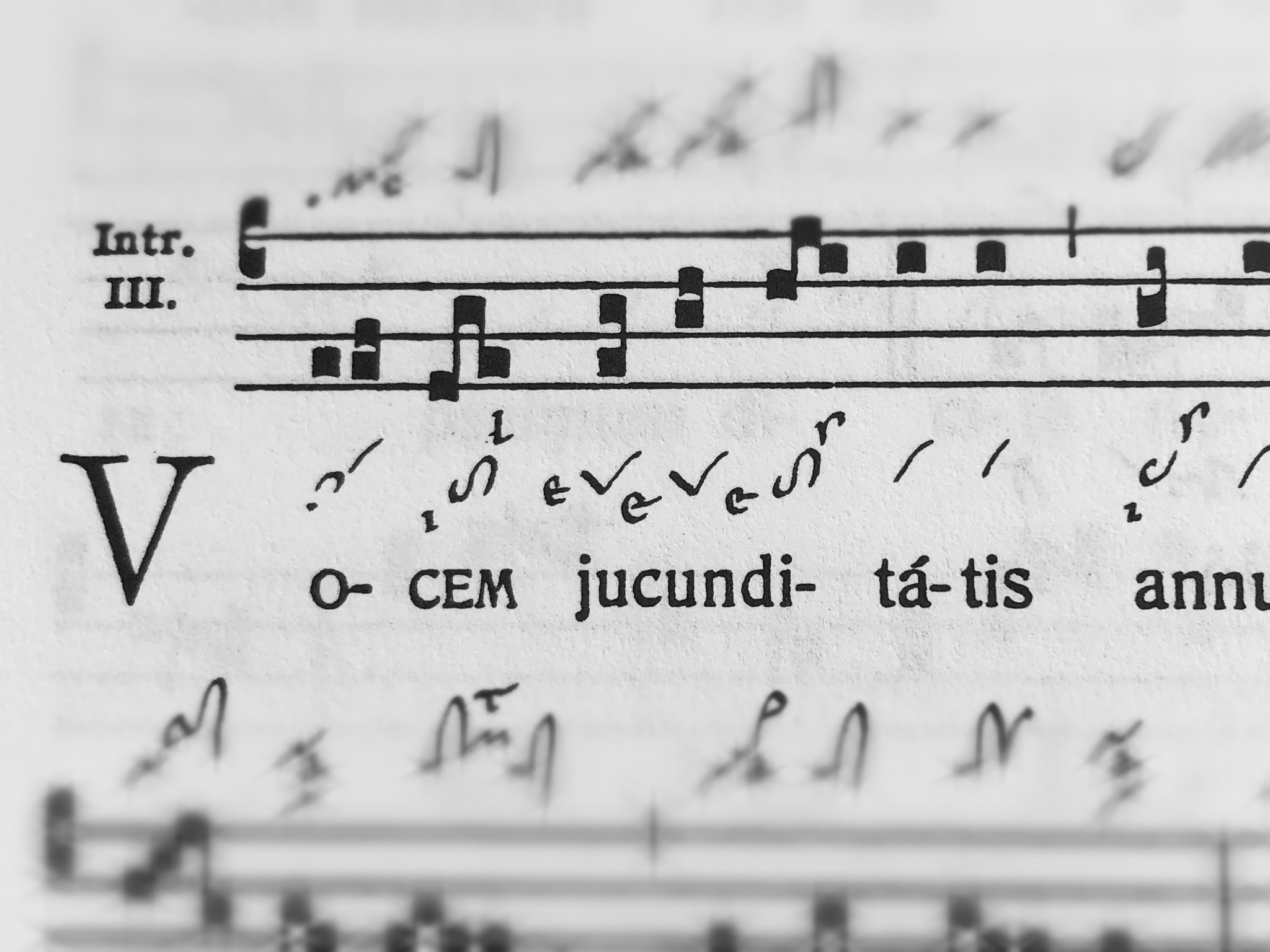 Incipit of he introitum Vocem jucunditatis from Graduale Novum